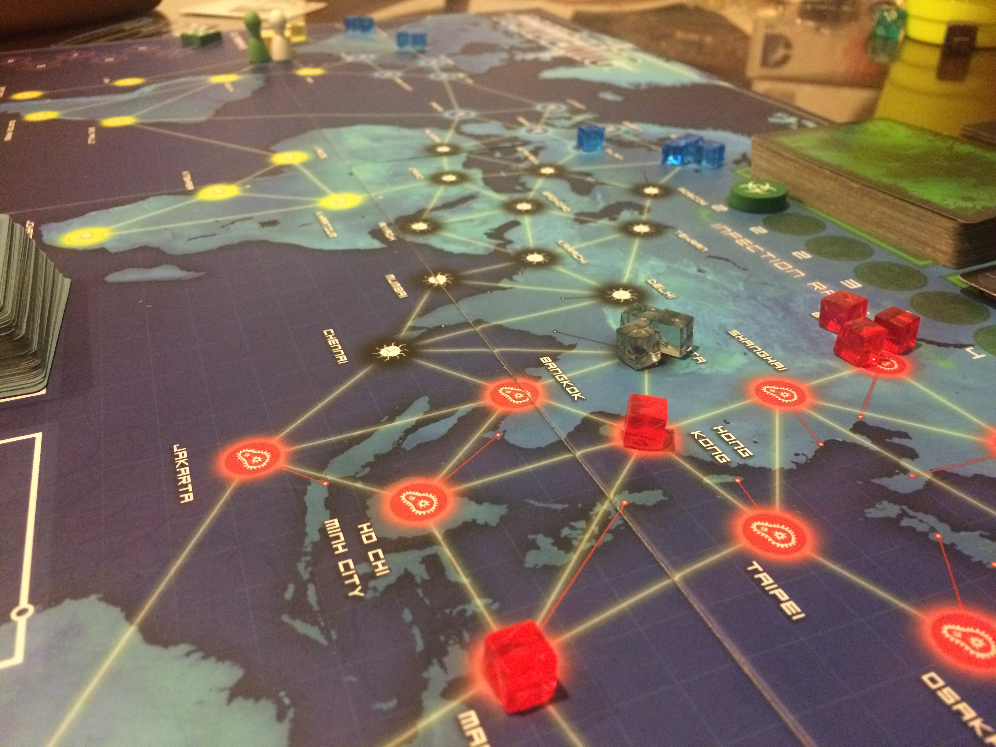 Pandemic board game, close-up